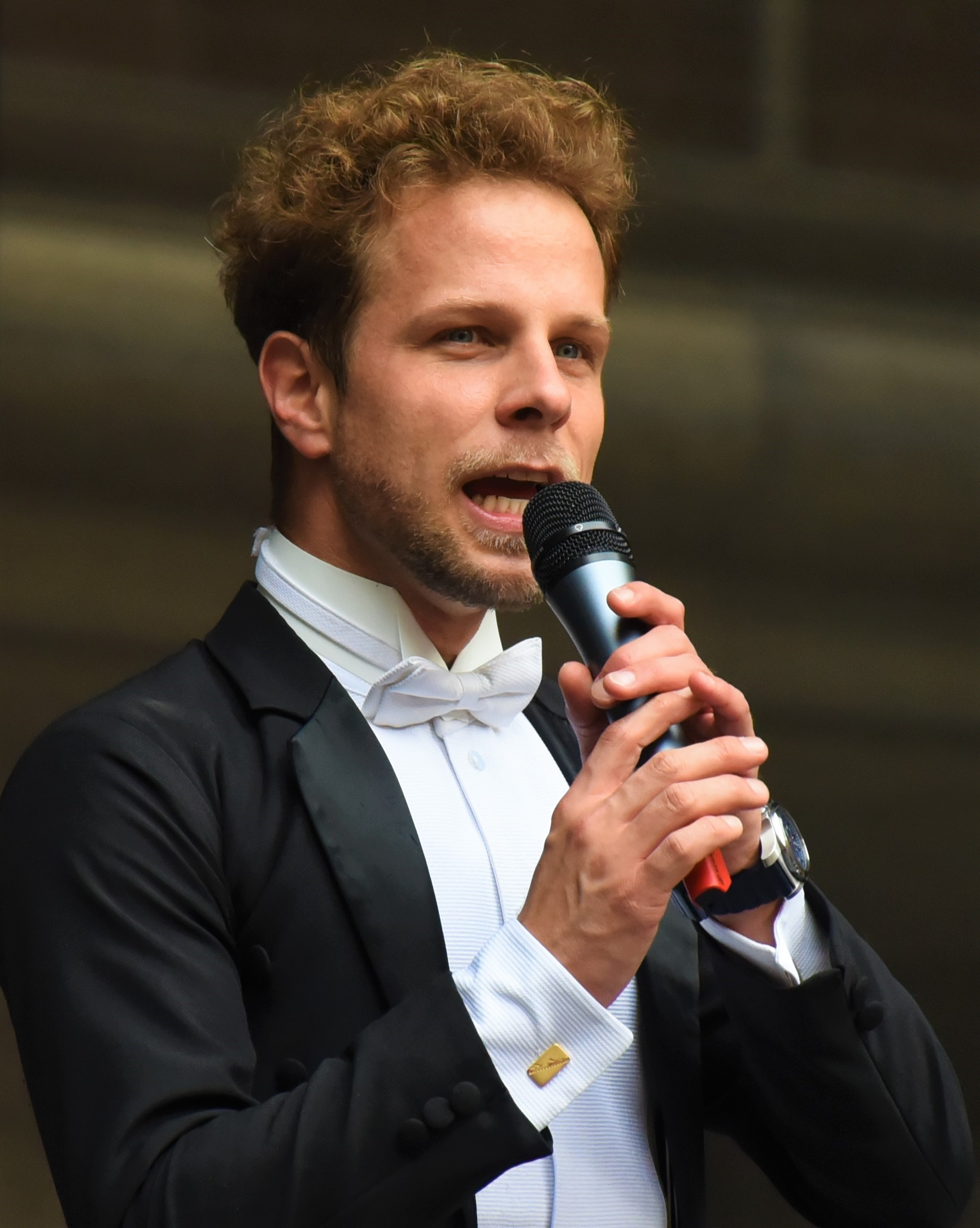 Jan Onder, Czech dancer